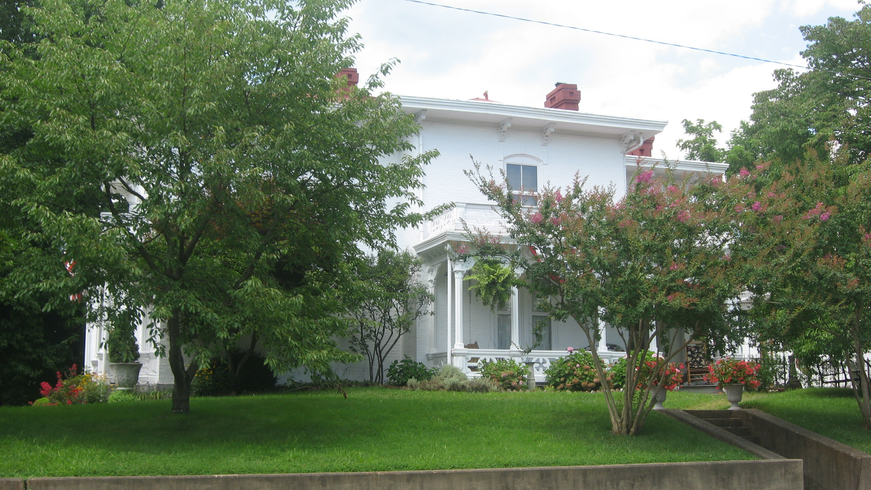 Front of the Lemley-Wood-Sayer House, located at 301 Walnut Street in Ravenswood, West Virginia, United States. Built in 1871, it is listed on the National Register of Historic Places, and it is part of a Register-listed historic district, the Ravenswood "Old Town" Historic District.